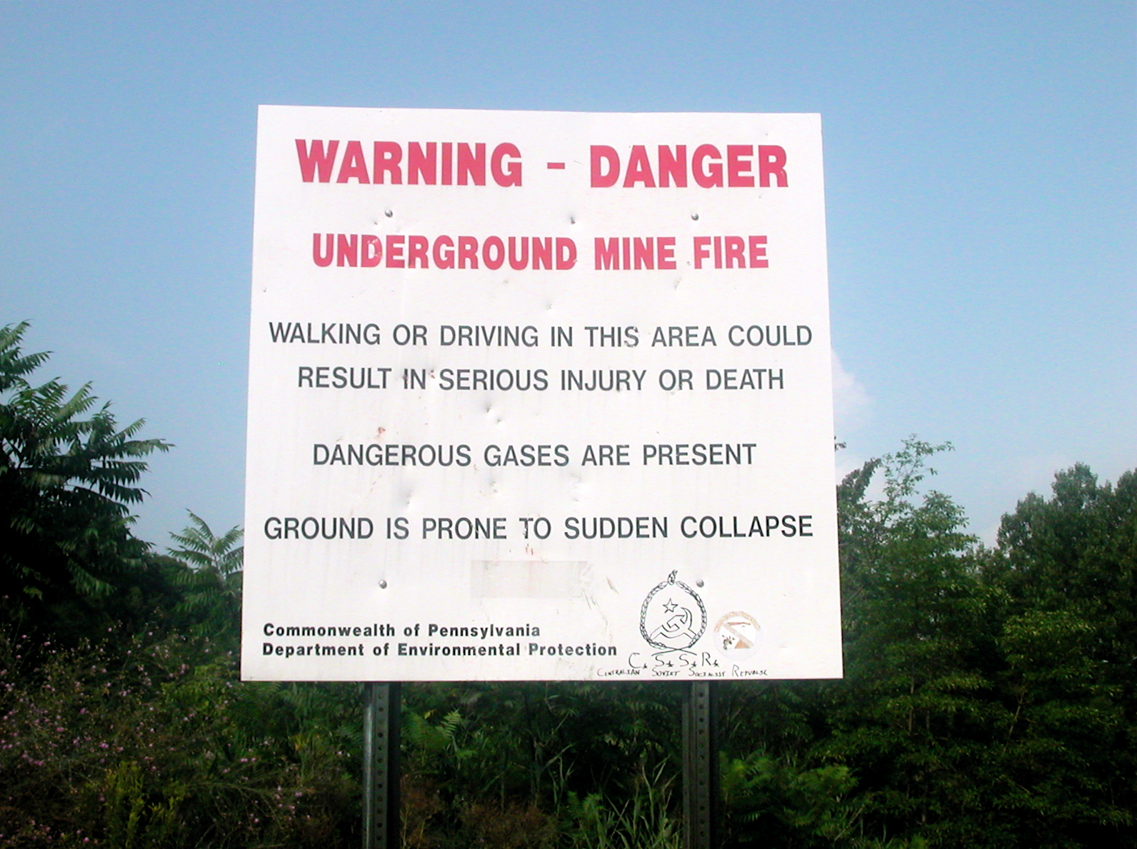 Warning sign on PA 61 in Centralia warning about the underground mine fire in the town.